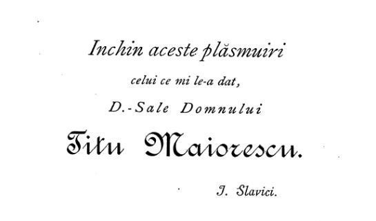 Ilustrare volum Novele din Popor din 1881, dedicație lui Titu Maiorescu